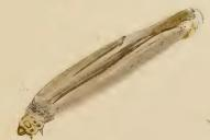 Stainton’s Natural History of the Tineina (1855–1873): Coleophora solitariella larval case